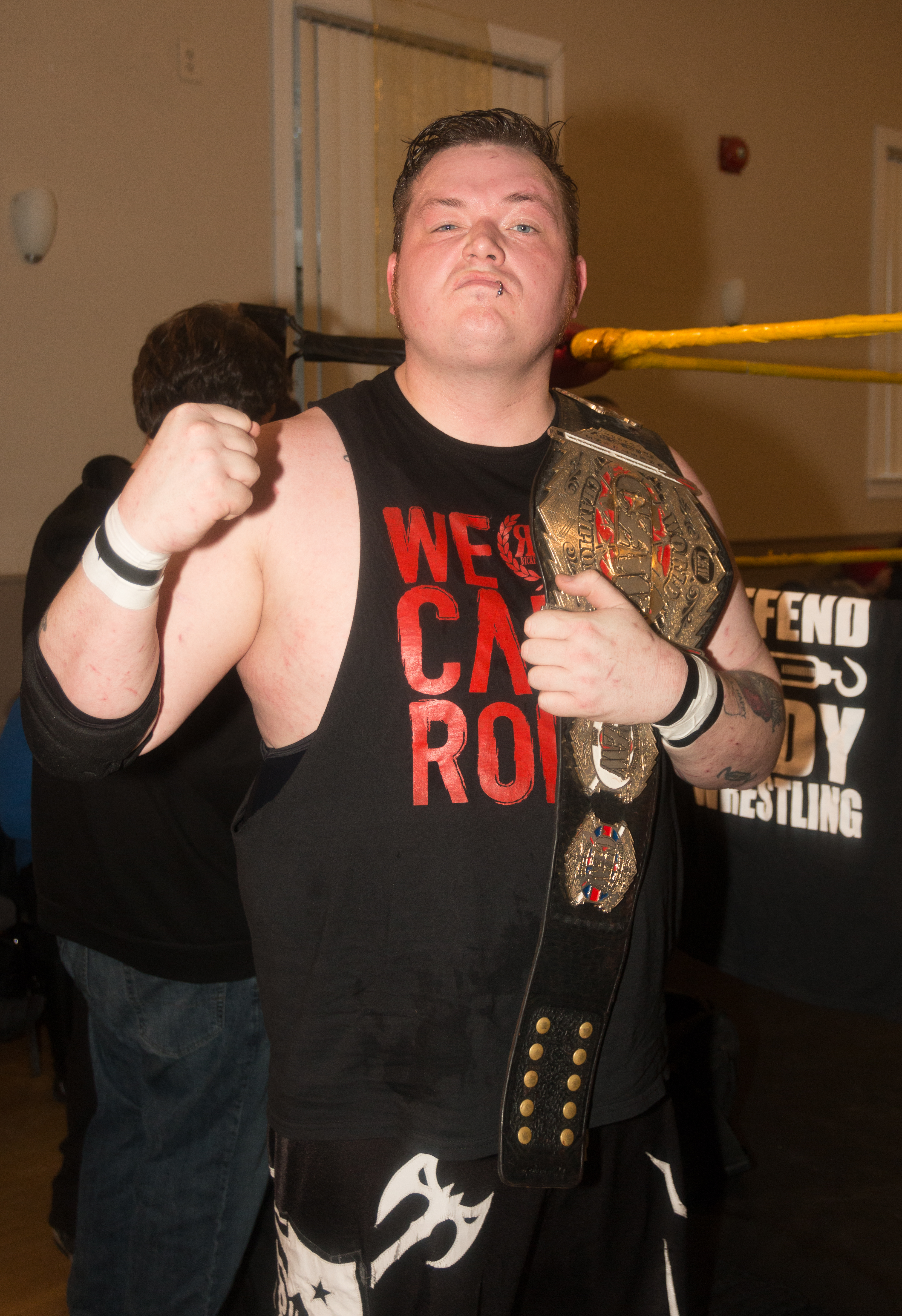 Independent wrestler Rickey Shane Page, poising with the CZW World Heavyweight Championship belt, at an Alpha-1 wrestling show at the Polish Hall in Oshawa, ON